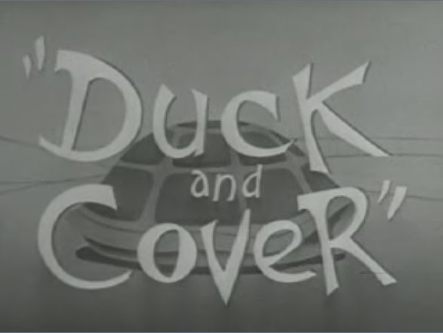 Screenshot from Duck and Cover.